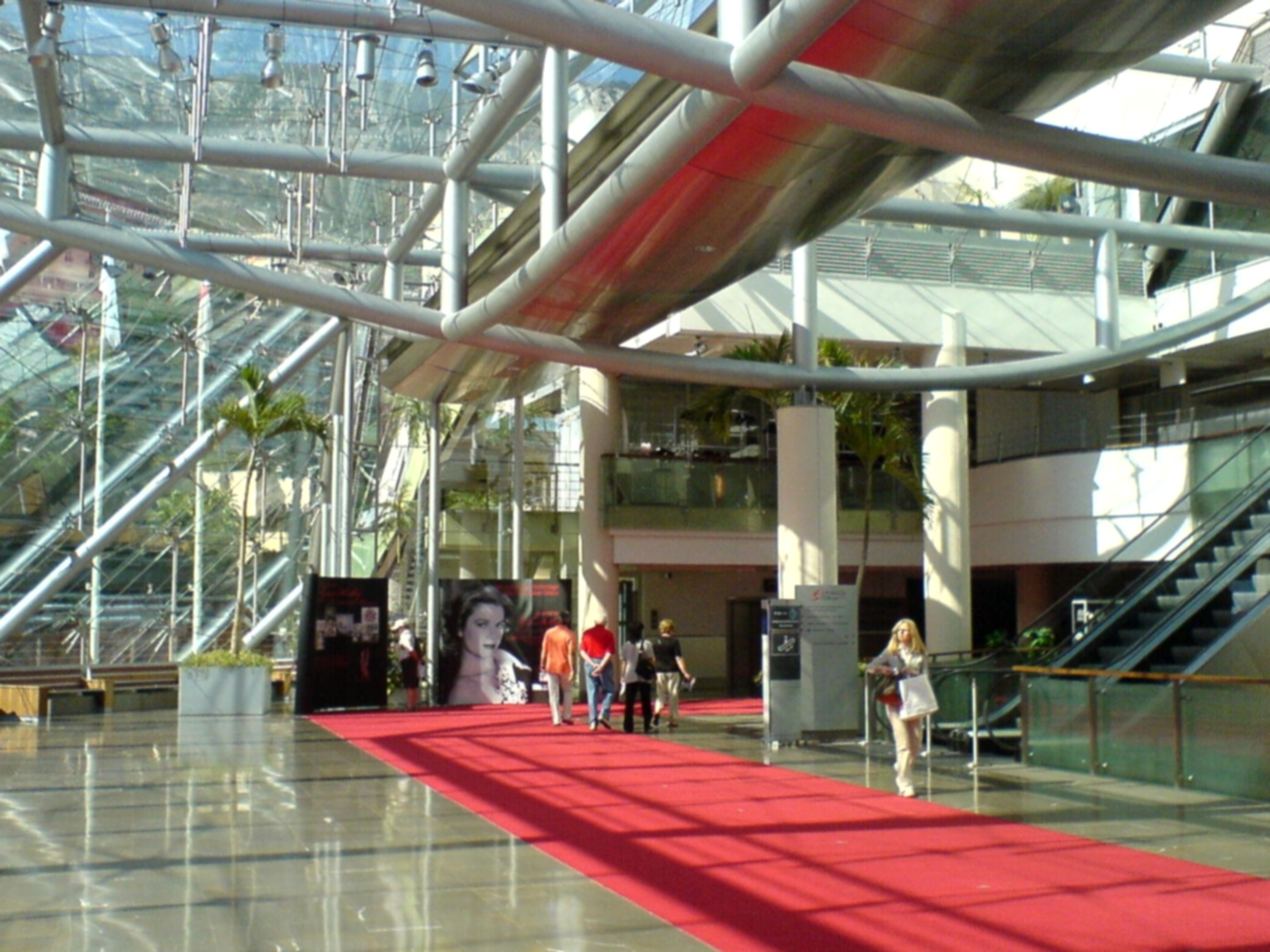 Exhibition "Les années Grace Kelly - Princesse de Monaco" ("The Grace Kelly Years - Princess of Monaco") at Grimaldi Forum, Monaco